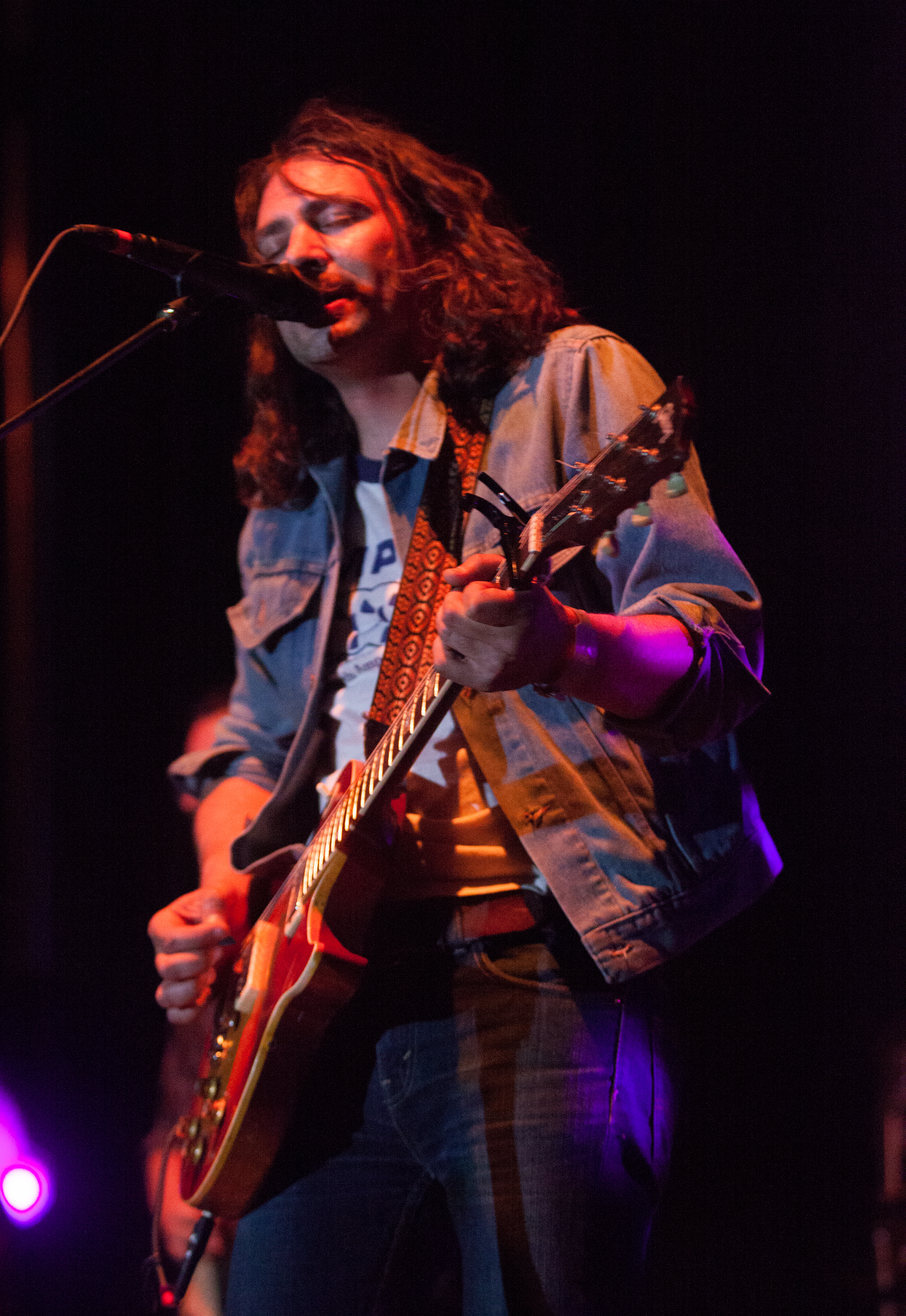 Adam Granduciel performing with The War on Drugs at Austin Psych Fest 2014 on May 4, 2014 in Austin, Texas